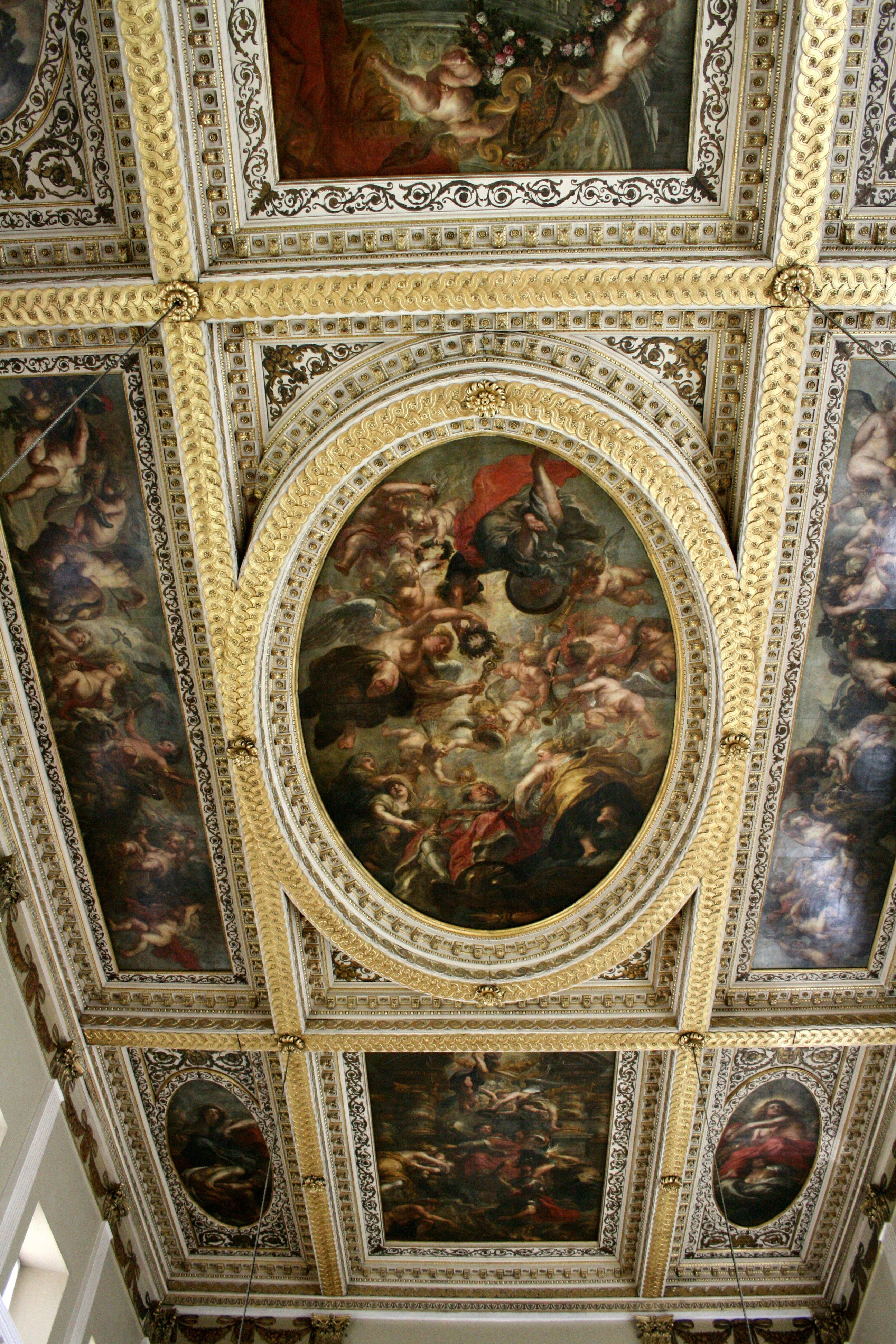 Banqueting House, Whithehall, London. Rubens's painted ceiling. View towards the throne